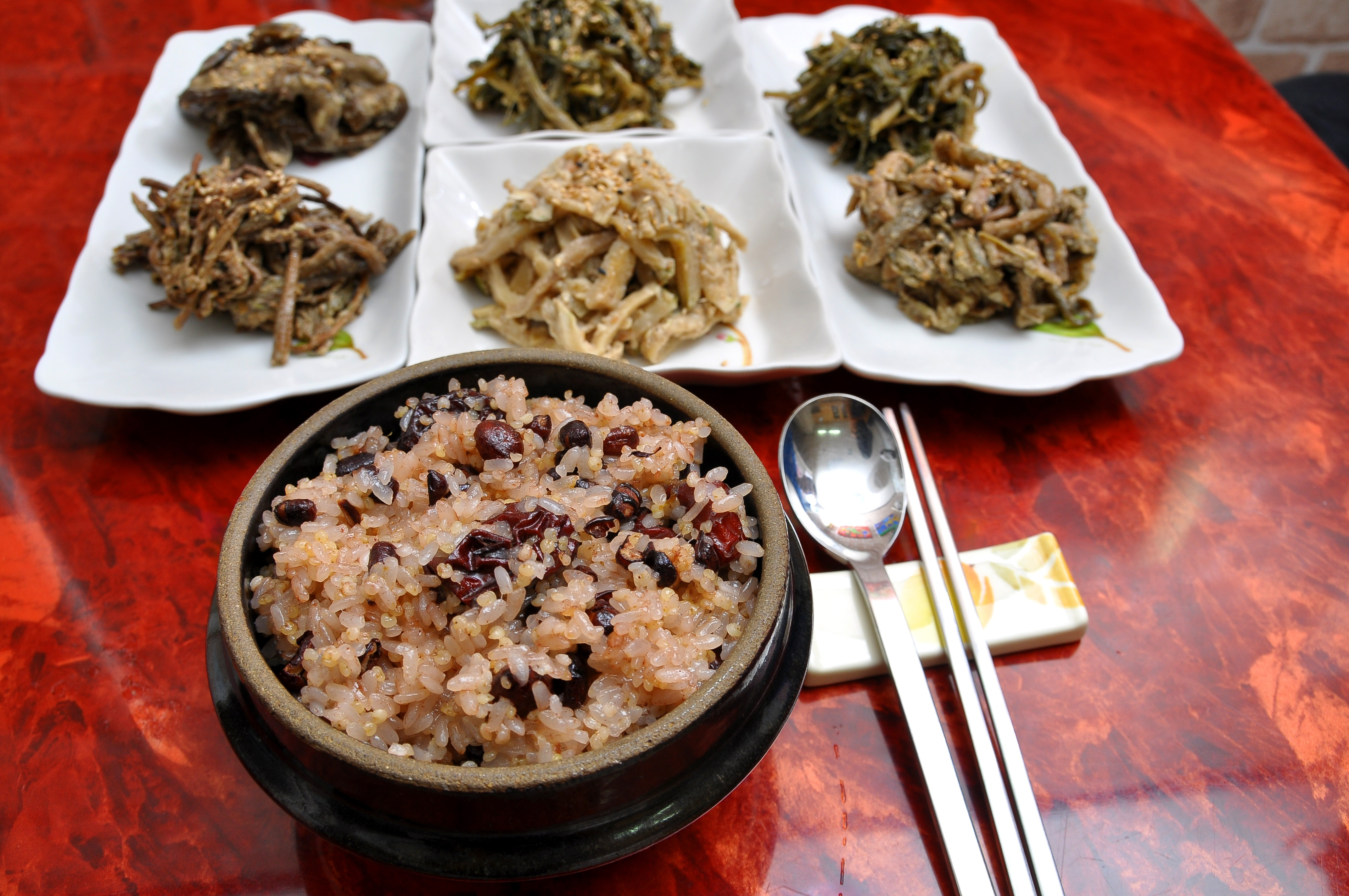 ogokbap, boreum namul (five-grain rice and namuls eaten in Boreum)